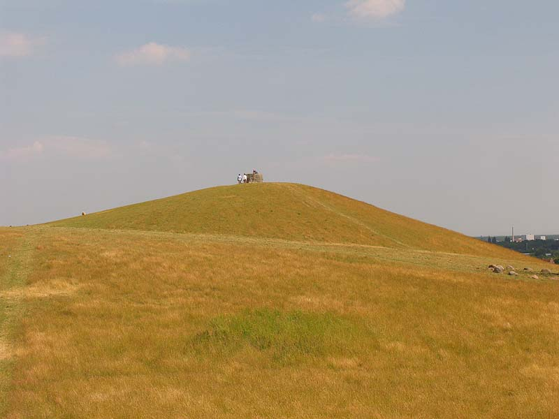 Herstedhoeje, a artificially created hill 15 km west of Copenhagen